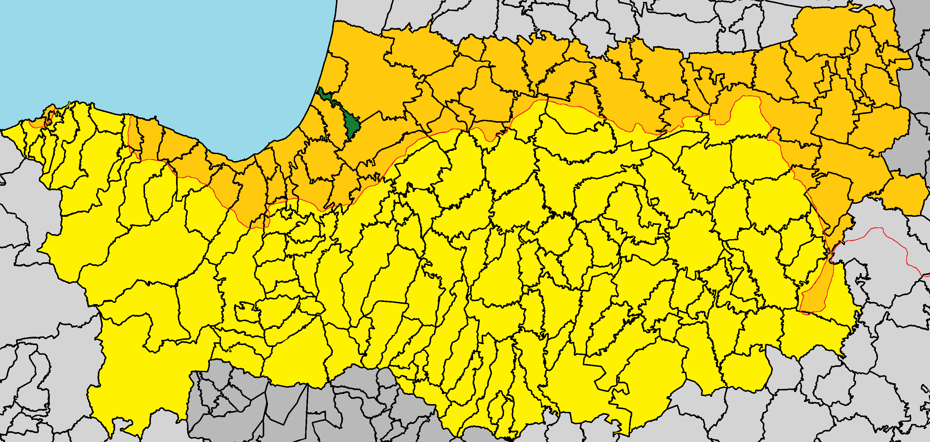 Nikitas in Nicosia District (de jure).